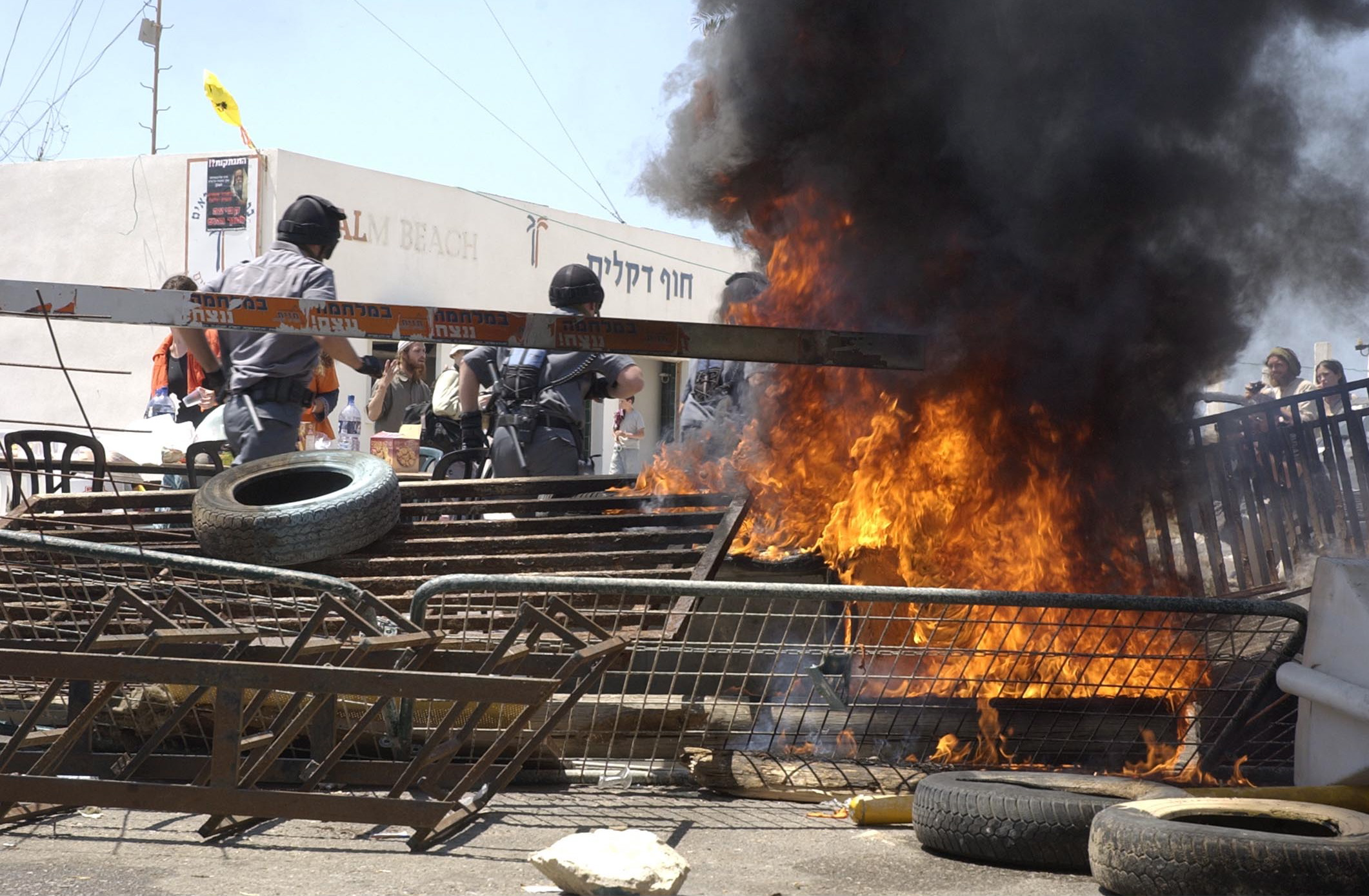 June 30, 2005. Security forces broke into the Neve Dekalim Hotel and cleared out 150 right wing extremists that had barricaded themselves inside. The police were forced to break in with metal ladders and, using megaphones, demanded that the residents evacuate. The head of the Southern Command, Maj. Gen. Dan Harel, said after the operation: "The peoples' actions here were unacceptable. Some will be removed from the area and other will be arrested. I hope that the quiet that was once typical of the region will return. The people of this region have a legitimate right to protest but the decision to close the Strip stands."